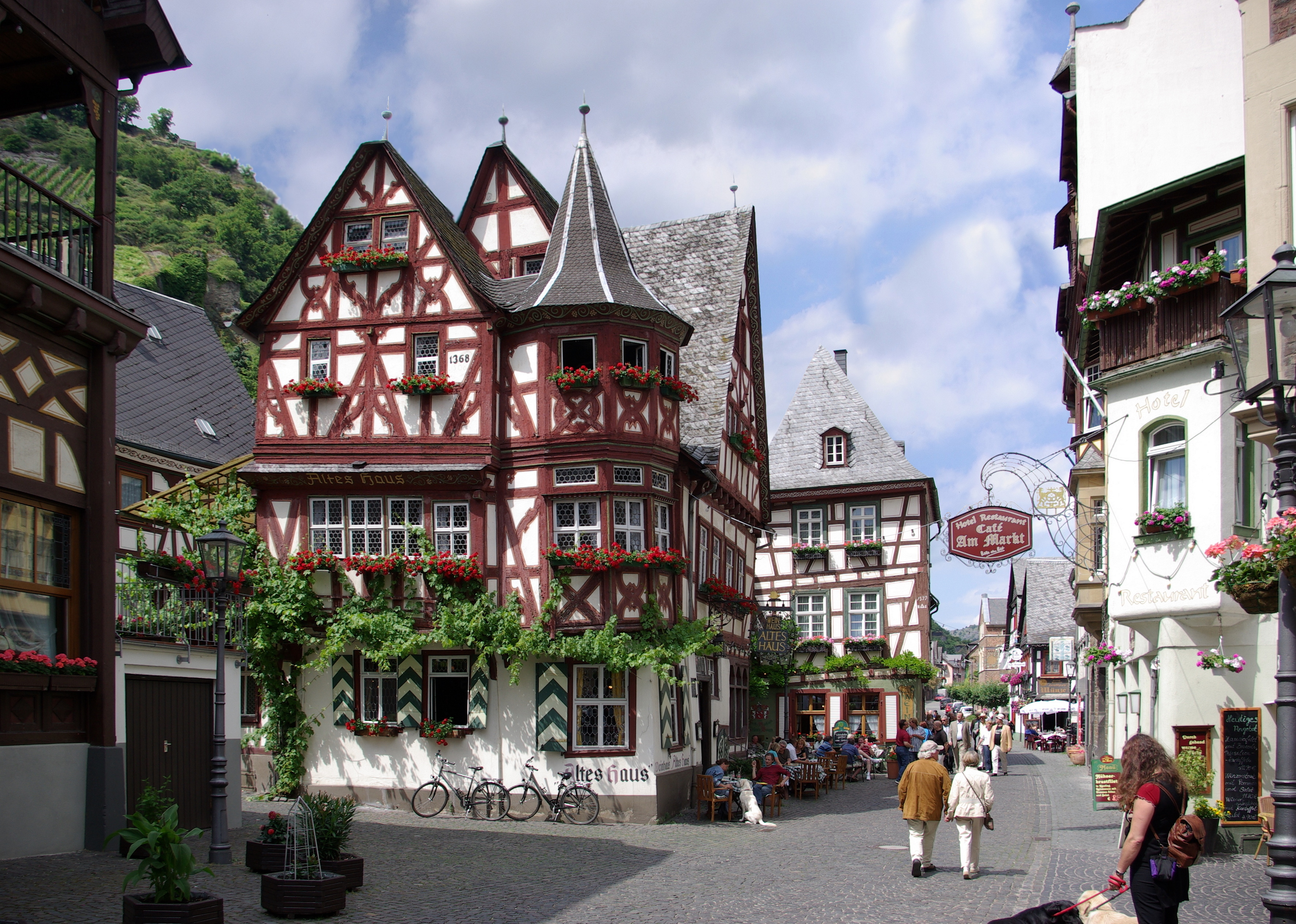 Germany, Bacharach, Inn "Altes Haus" (Old House)